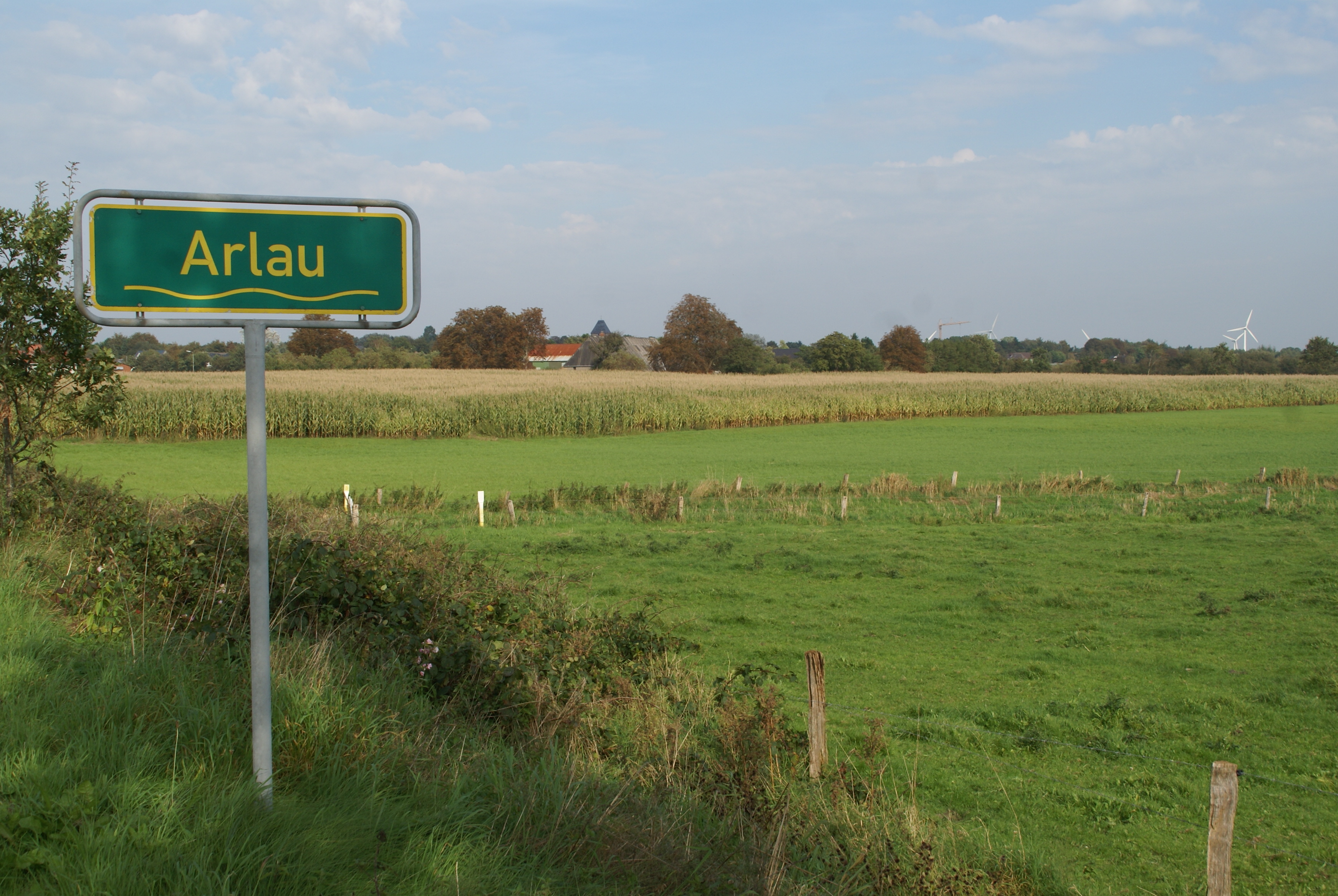 Viöl (Germany): The valley of the Arlau